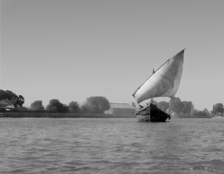 Dhau on the shatt al Arab